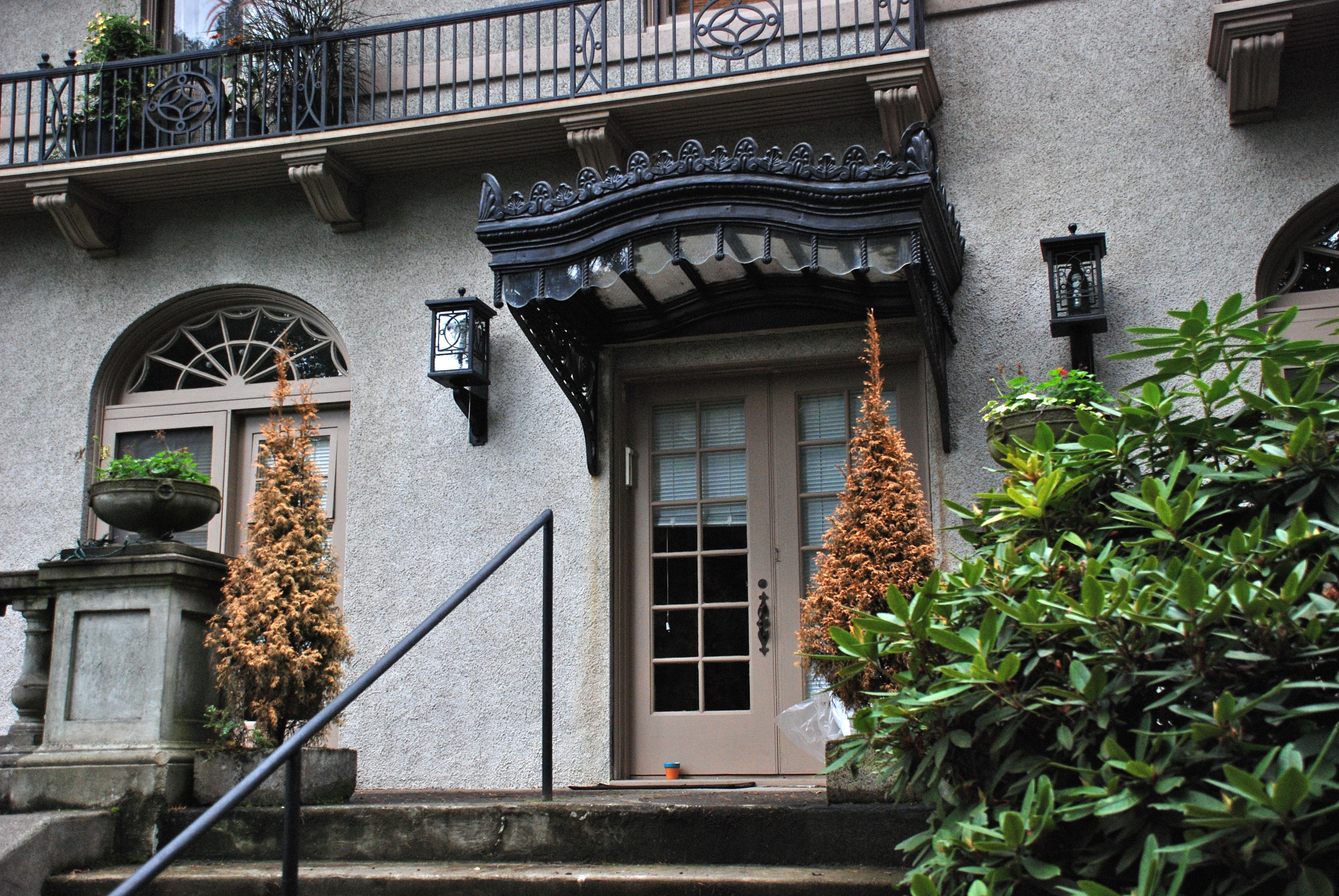 The Dr. A.E. and Phila Jane Rockey House, located in the Portland (Oregon) metropolitan area, in the unincorporated Riverwood area just south of the city of Portland, is listed on the U.S. National Register of Historic Places. This photo shows a doorway on the building's north side that originally was a main entrance to the house. It features an ornamental marquee, or entrance canopy, made of iron and glass.